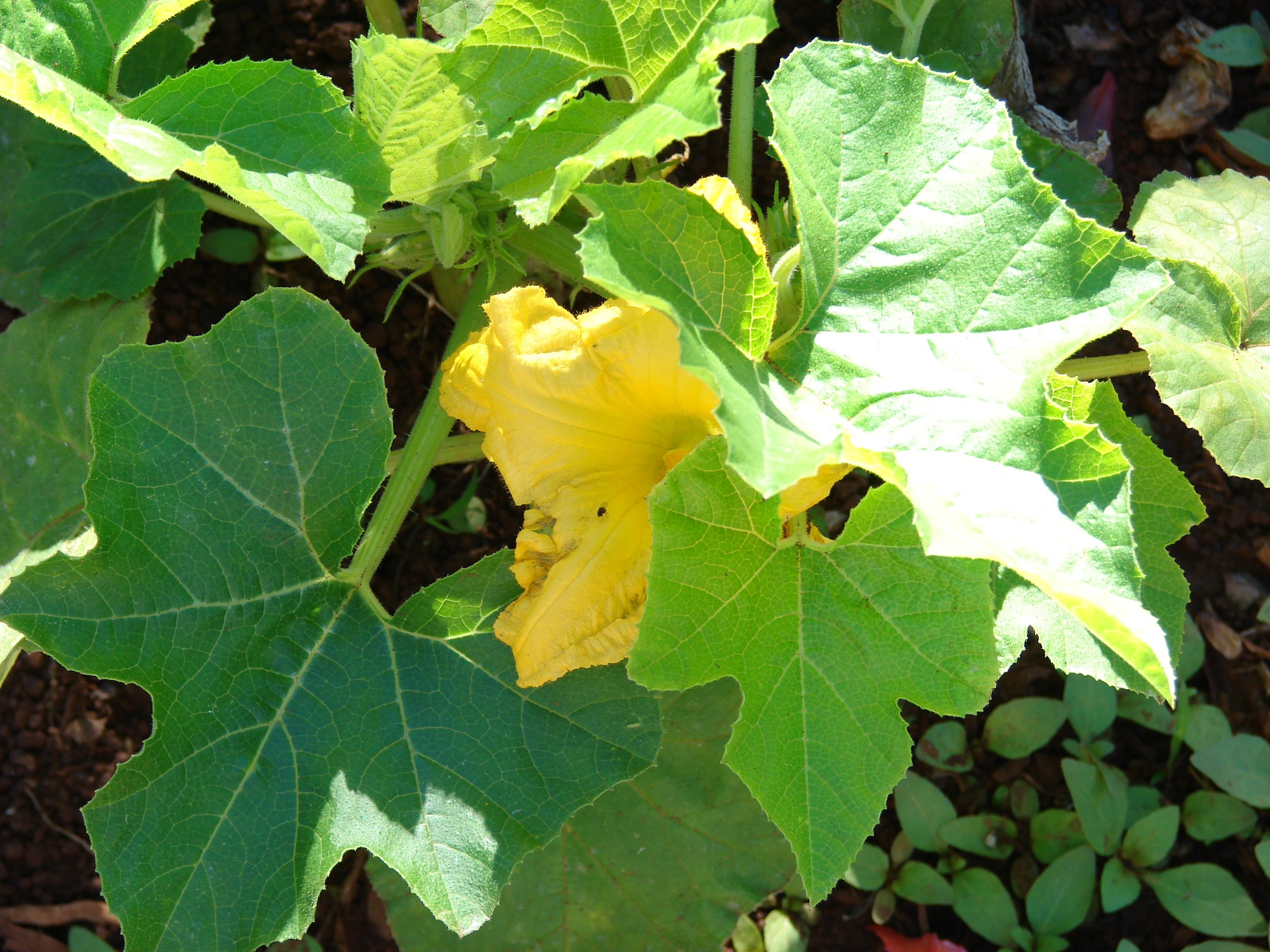 Cucurbita pepo (acorn squash flowers and leaves). Location: Maui, Makawao